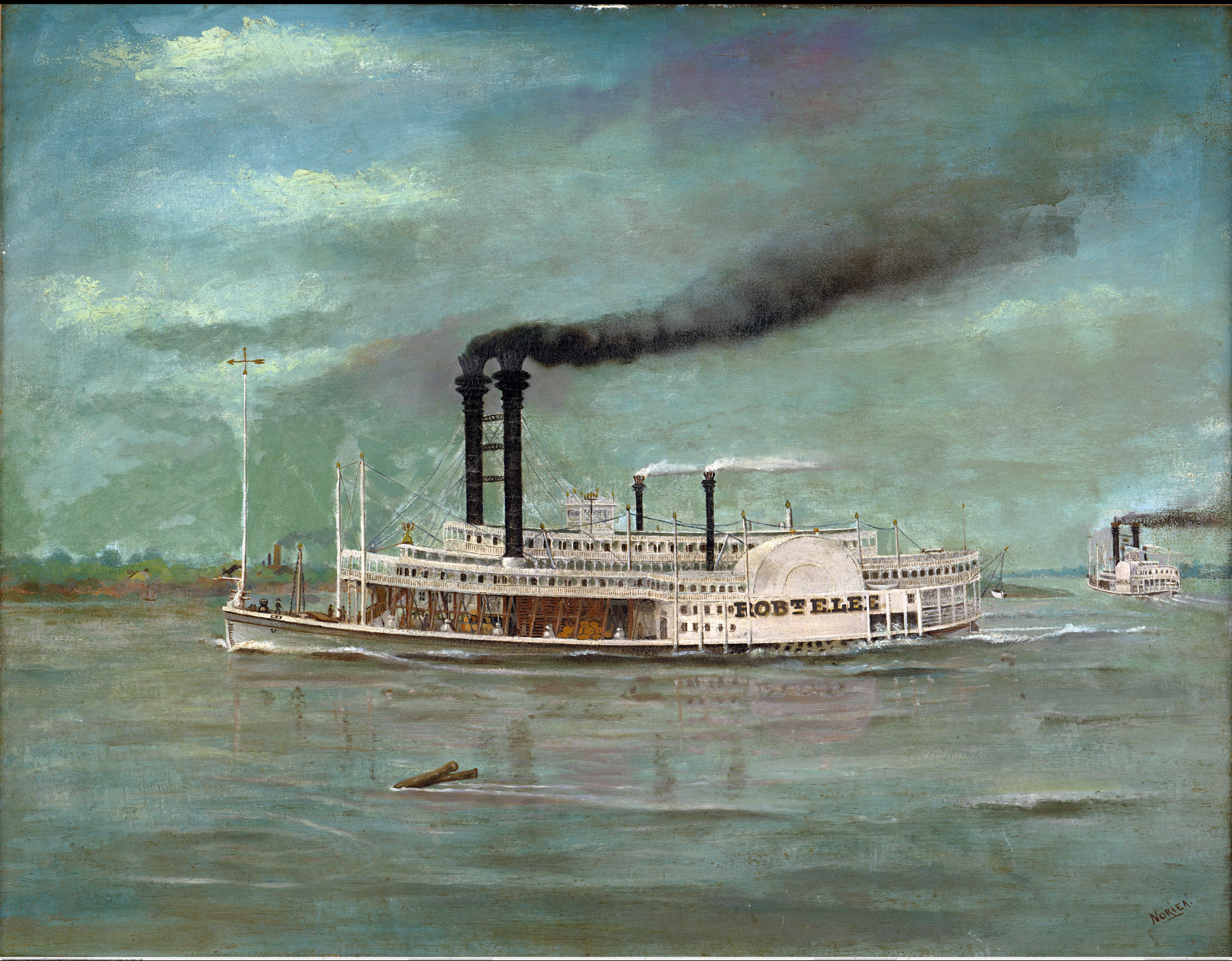 Oil painting of Robert E. Lee (steamboat)